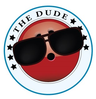 A symbol of a dude